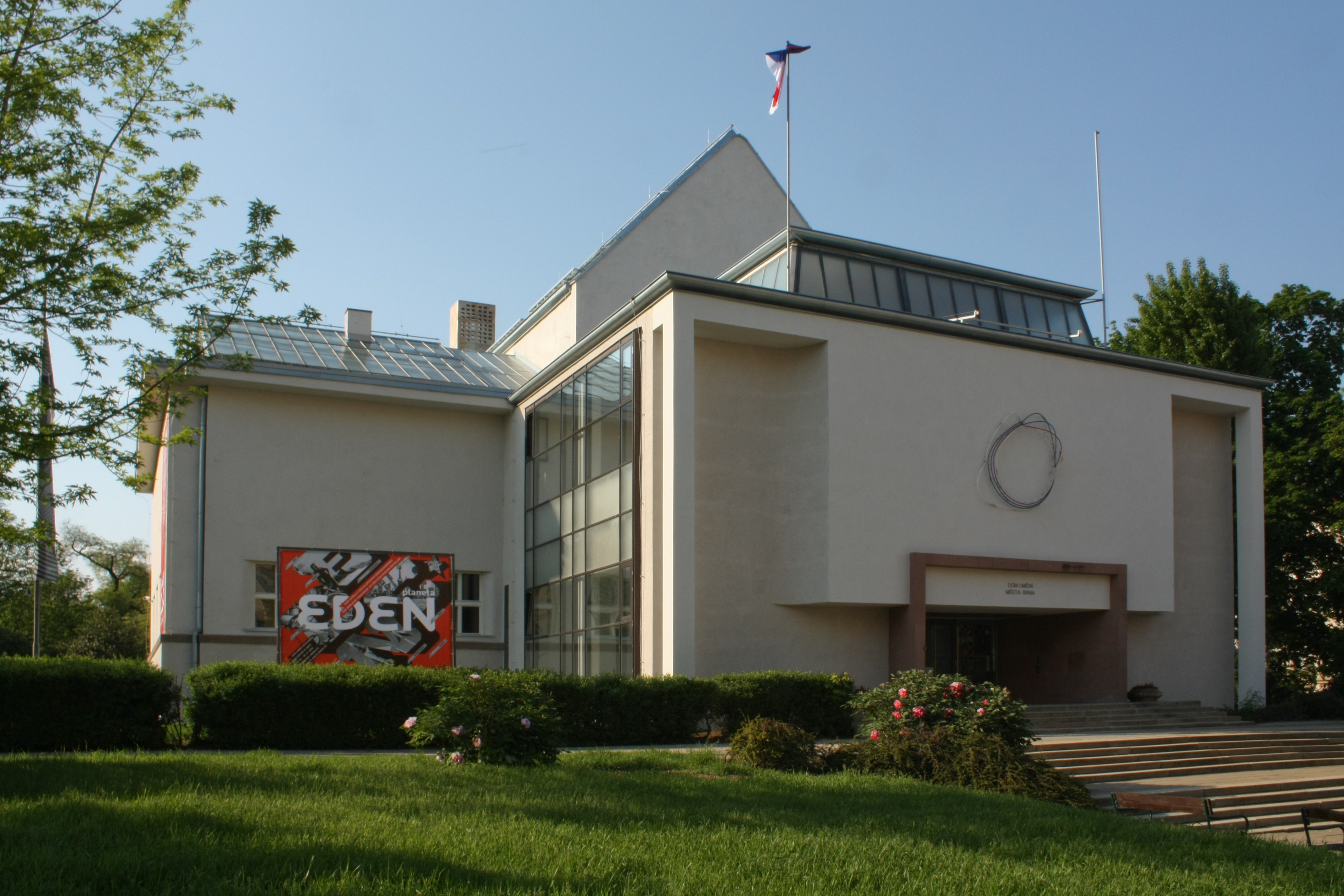 The Brno House of Arts, Brno, Czech Republic